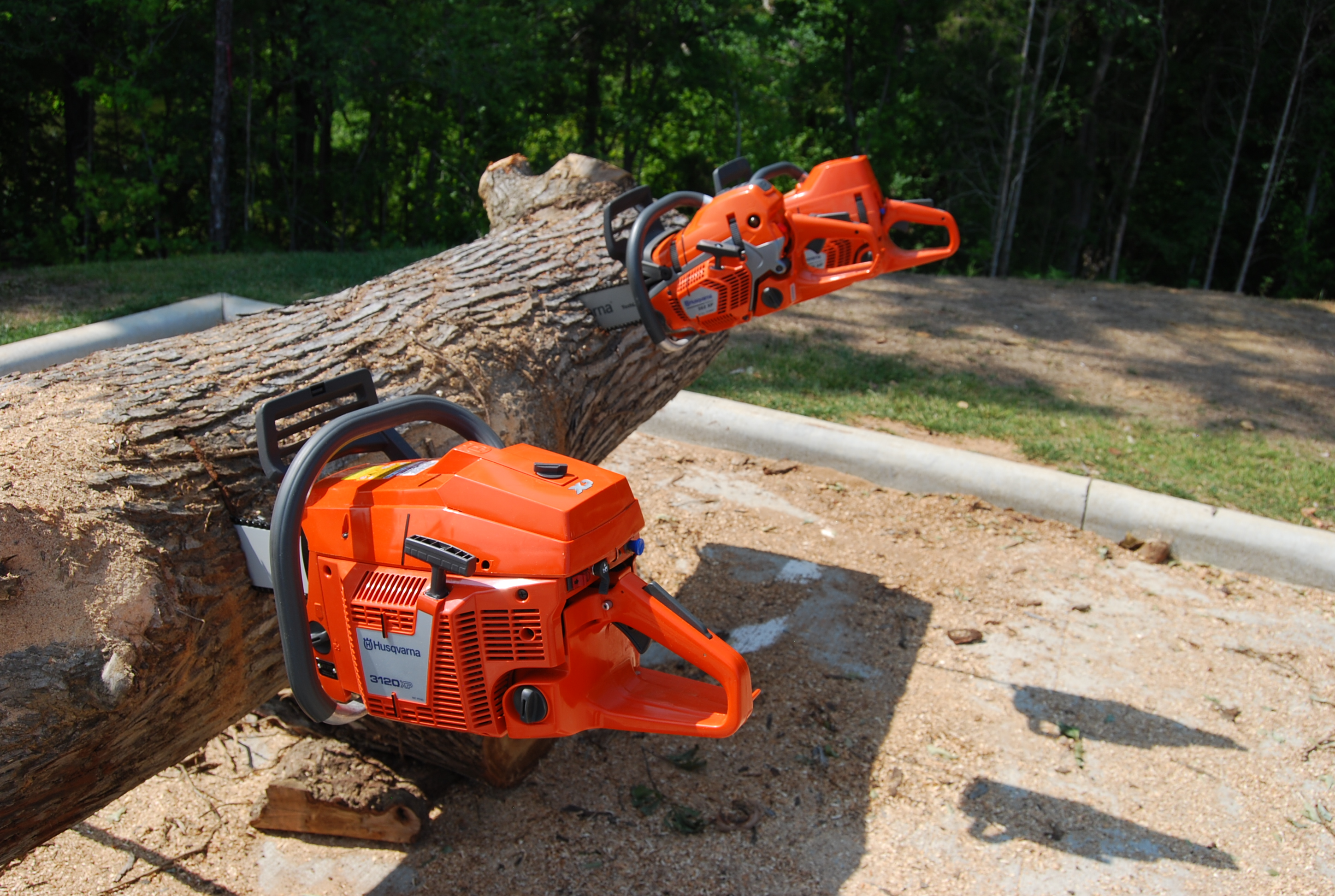 Select media were invited to test the 2011/2012 product lineup from Husqvarna Outdoor Power Equipment. This included chainsaws, trimmers, hedgers, pole saws, riding mowers, zero-turns and more!